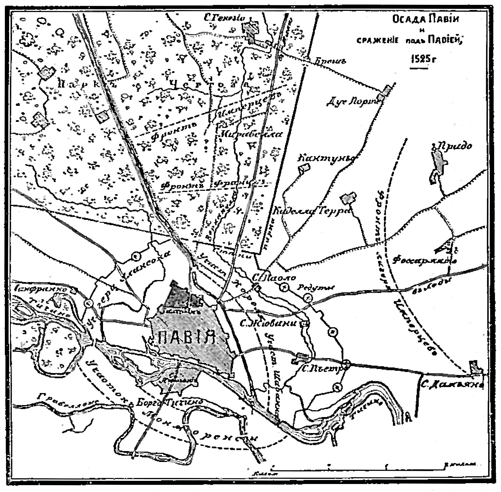 Old map of Pavia. Battle of Pavia.